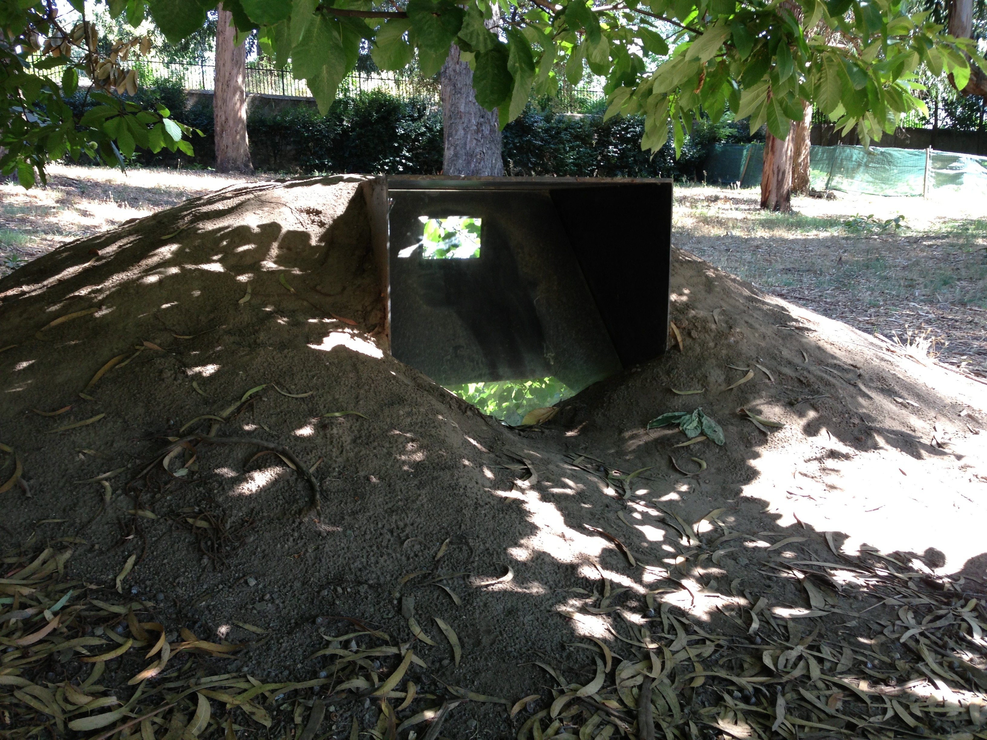 General view of "Monte Falso", work by Francisco Tropa in Museu Serralves, Oporto.